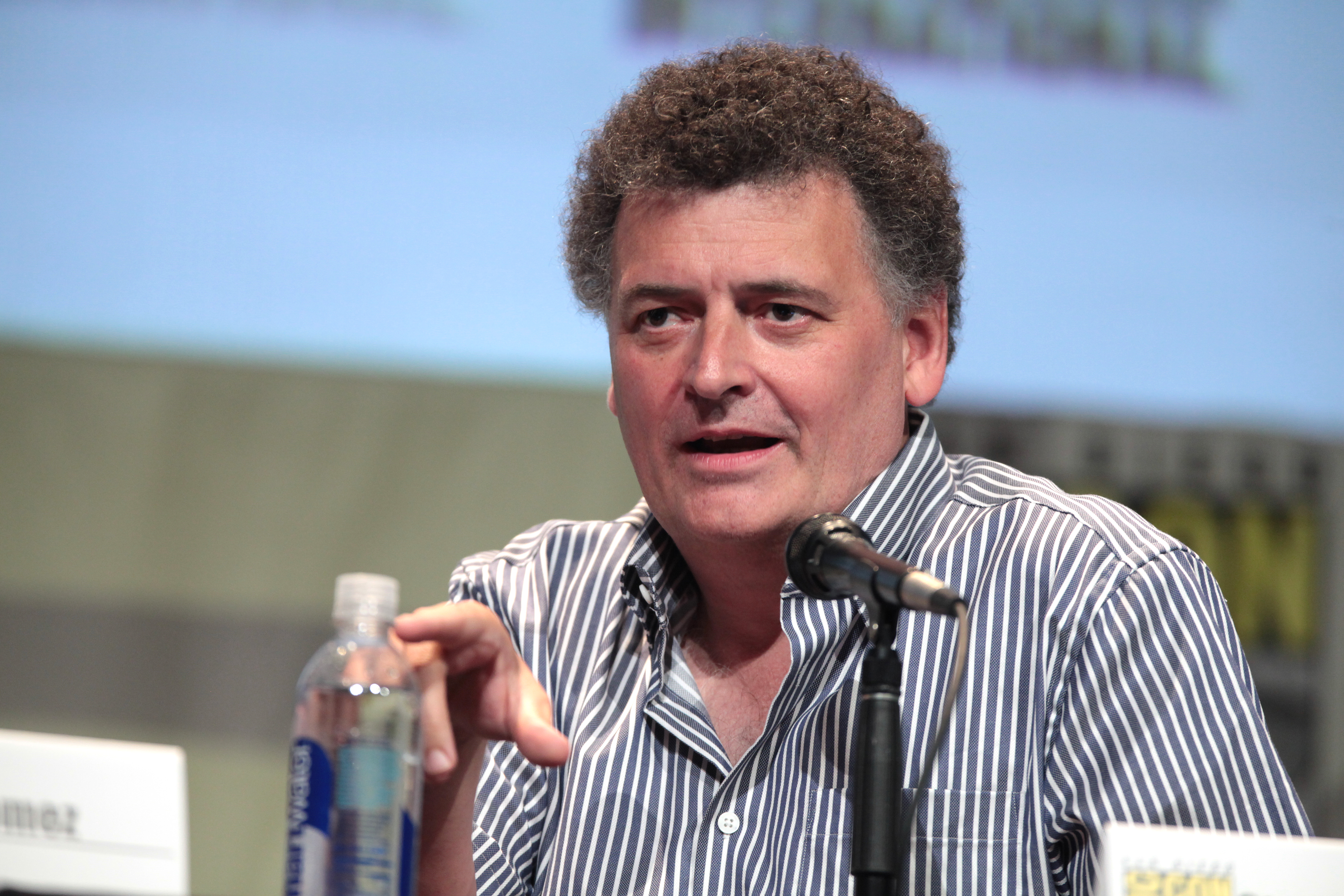 Steven Moffat speaking at the 2015 San Diego Comic Con International, for "Doctor Who", at the San Diego Convention Center in San Diego, California.